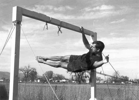 Bouldering pioneer John Gill performs a one arm front lever in the late 1960s